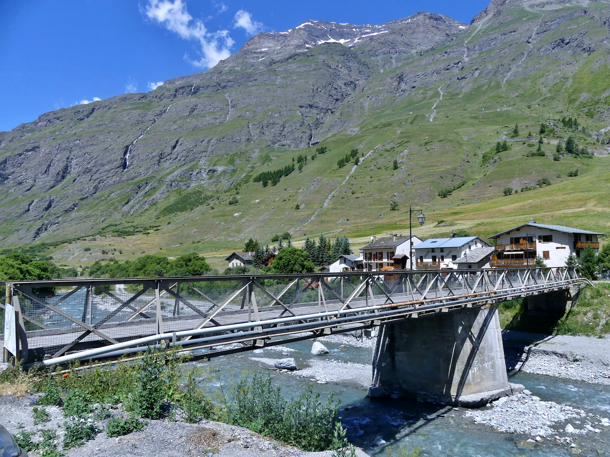 Sight, in summer, of the pont de Bessans bridge crossing the Arc river in Bessans, in the high Maurienne valley, Savoie, France.